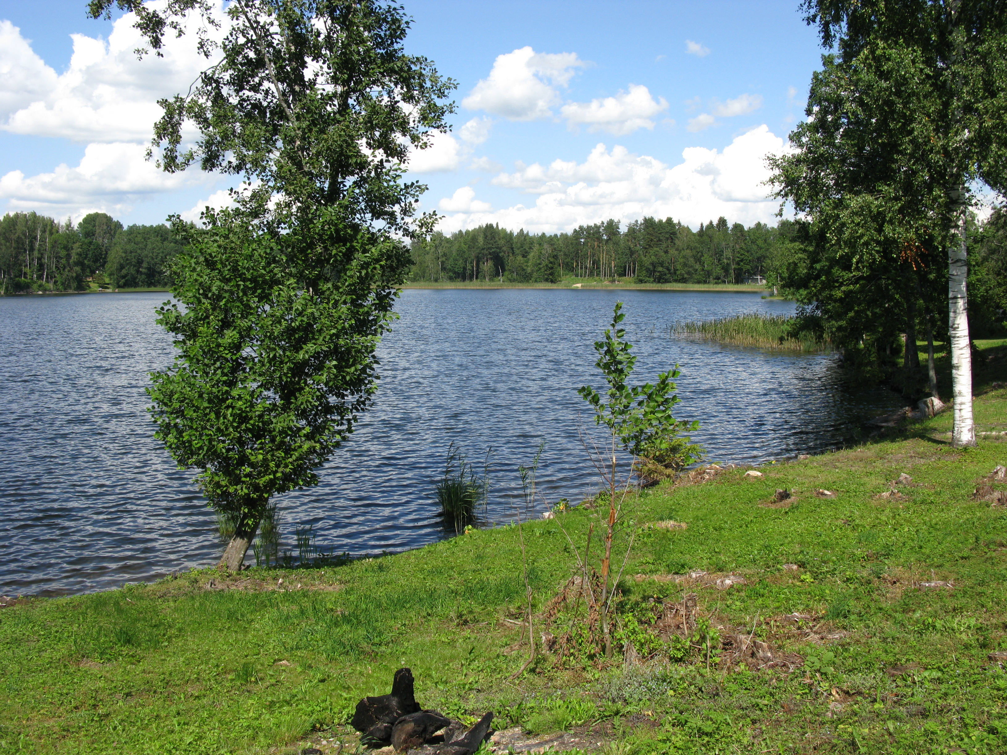 Lake Inni in Valga District Estonia; picture is taken on 27 July 2008